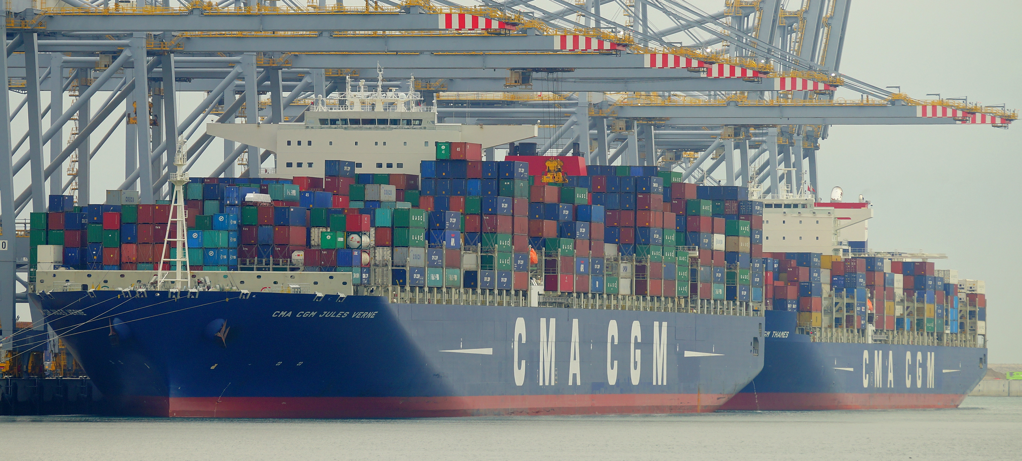 The Container ships CMA CGM Jules Verne & CMA CGM Thames, RWG Terminal, Prinses Amaliahaven Maasvlakte 2, Rotterdam